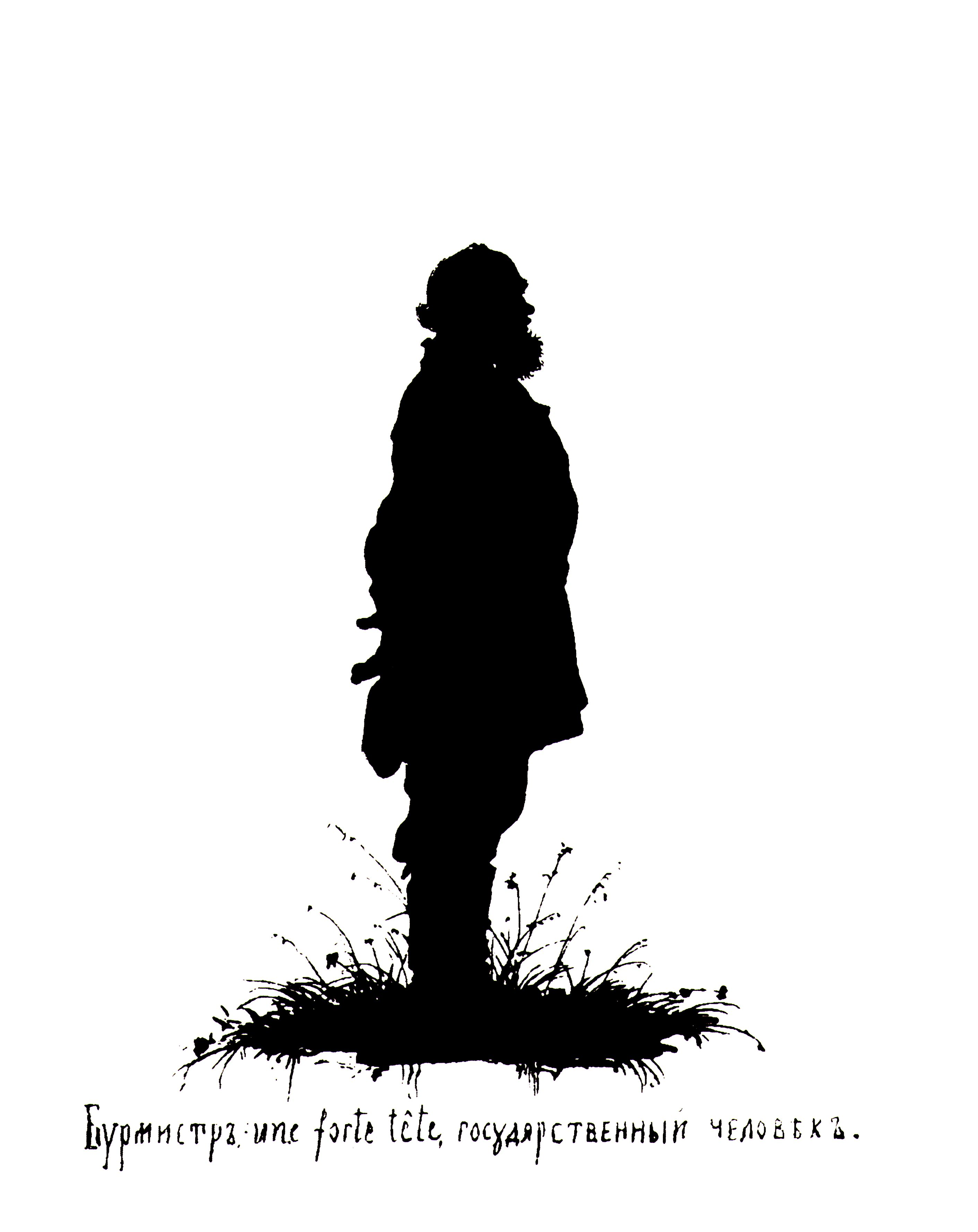 The illustration for the short story The Bailiff by Ivan Turgenev (from the collection A Sportsman's Sketches). “This man, as Arkady Pavlitch said, of real administrative power, was short, broad-shouldered, grey, and thick-set, with a red nose, little blue eyes, and a beard of the shape of a fan.” —Ivan Turgenev. The Bailiff (translation by Constance Garnett)